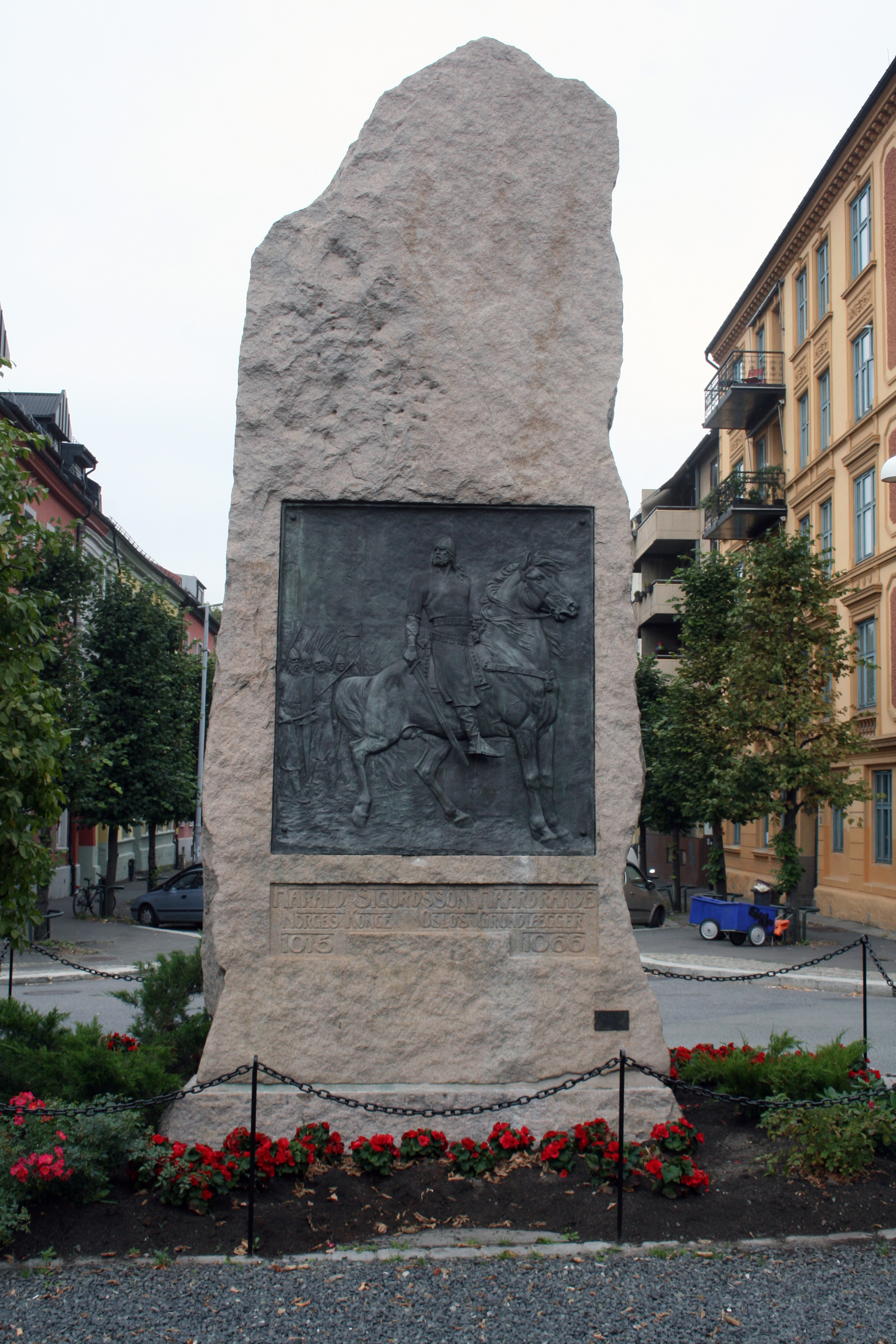 Monument of the Norwegian king Harald Hardrada (1015–1066), founder of Oslo, at Harald Hardråde square in Gamlebyen in Oslo. Artist: Lars Utne (1862–1922).